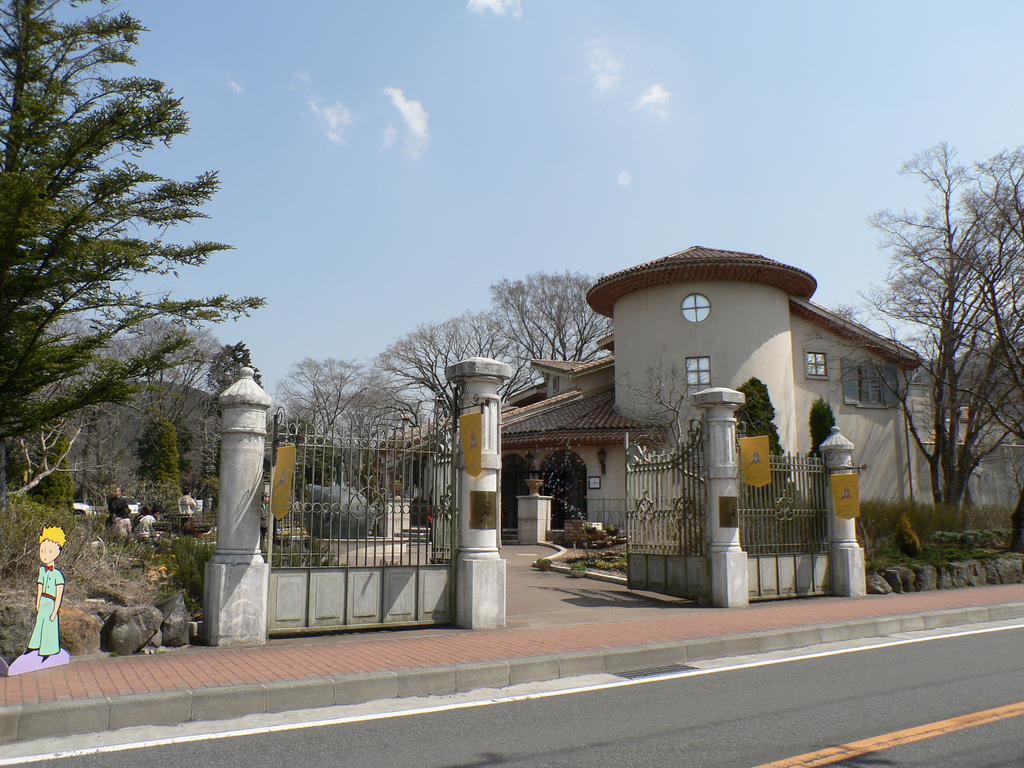 Entrance to the Museum of The Little Prince in Hakone.